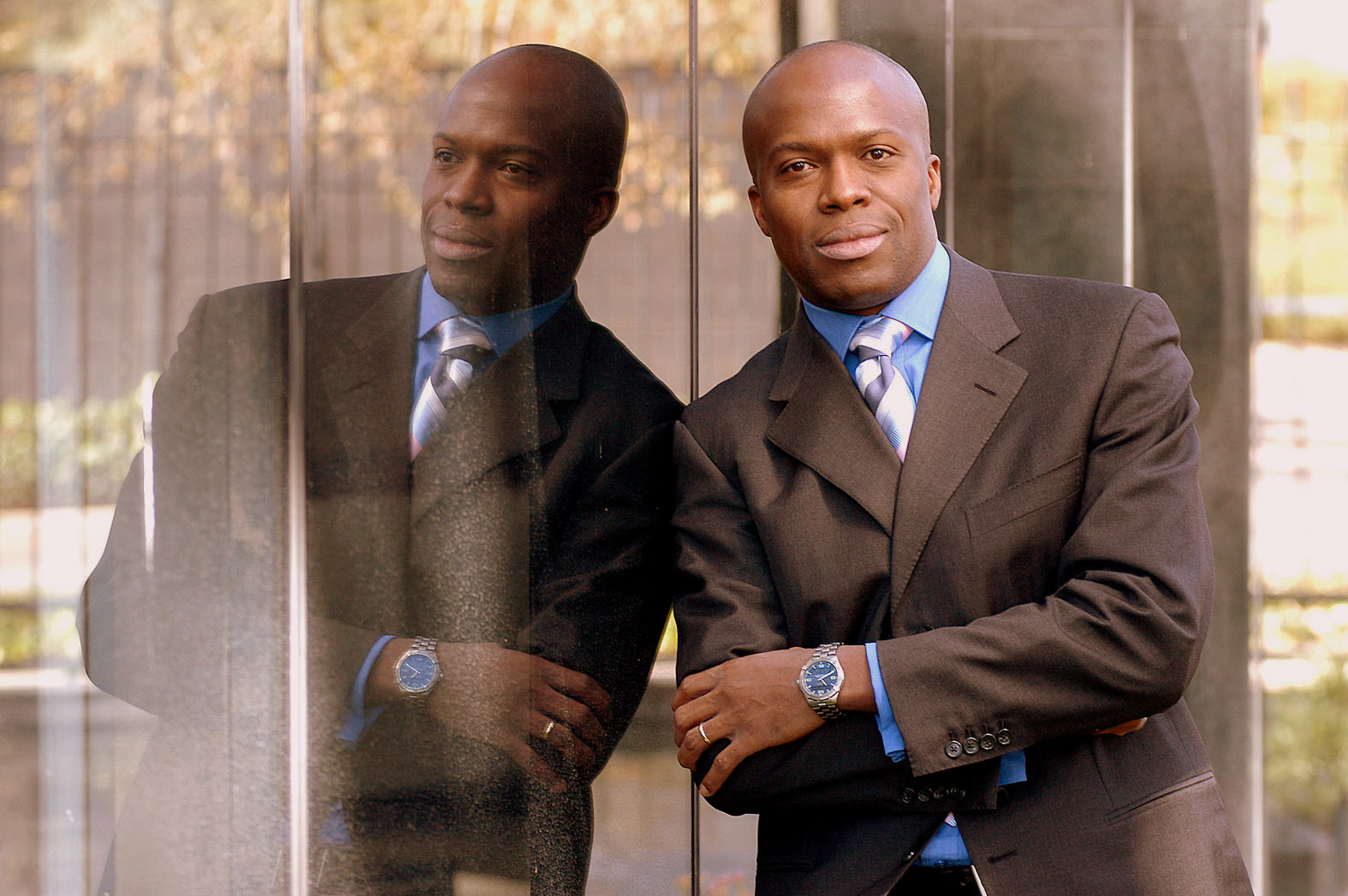 Ayisi Makatiani at the AMSCO Offices in SA